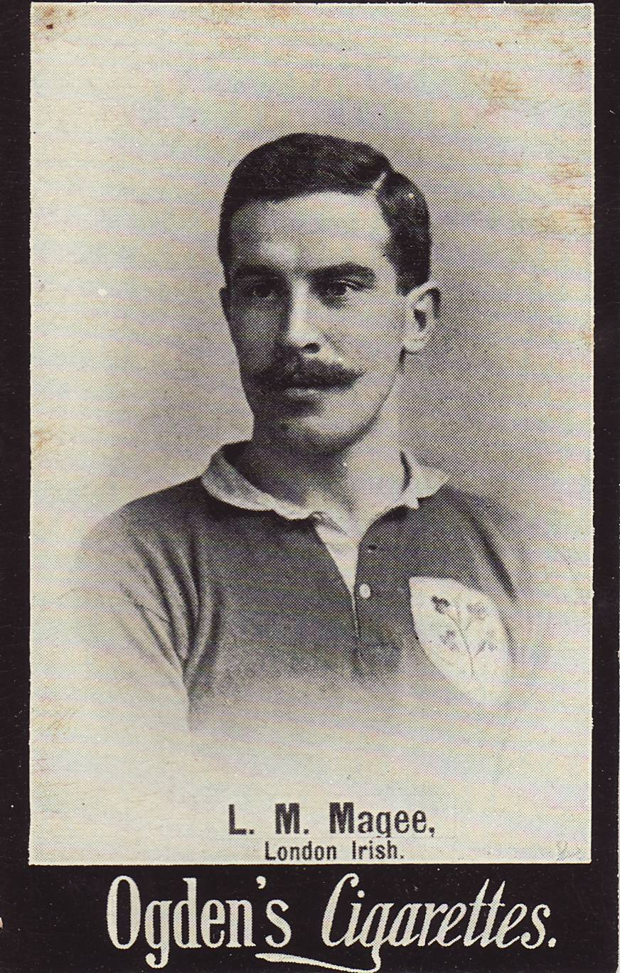 Cigarette Card of Louis Magee, Ireland and British Lions international rugby player.